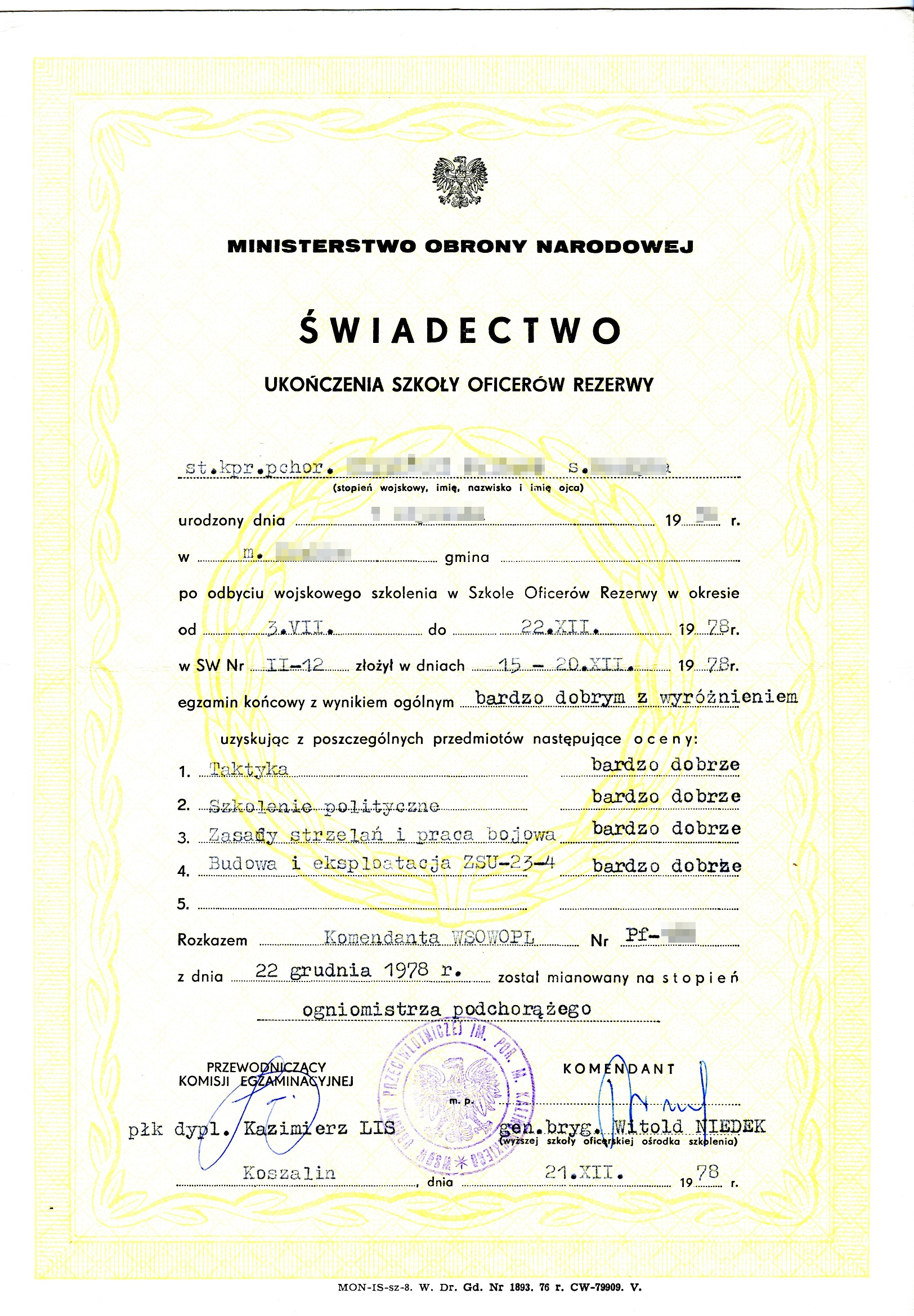 Certificate of Military Reserves School of Polish Army, 1978